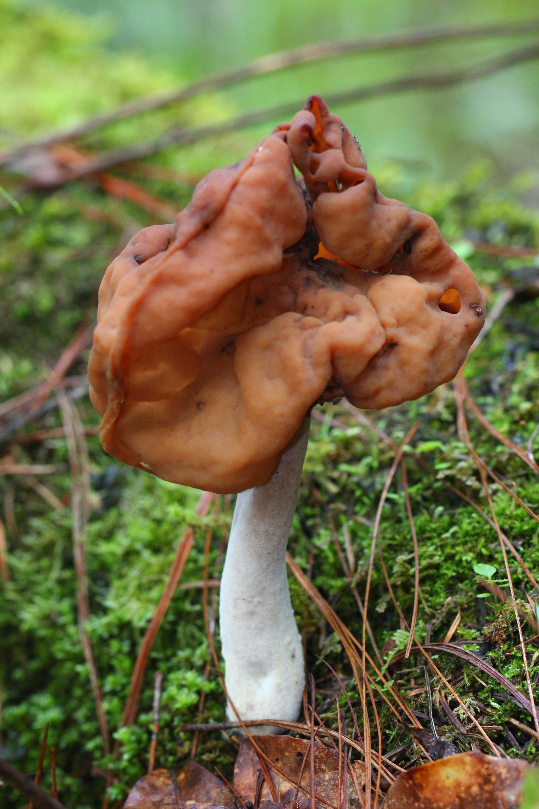 Gyromitra esculenta group from Colima, Mexico.